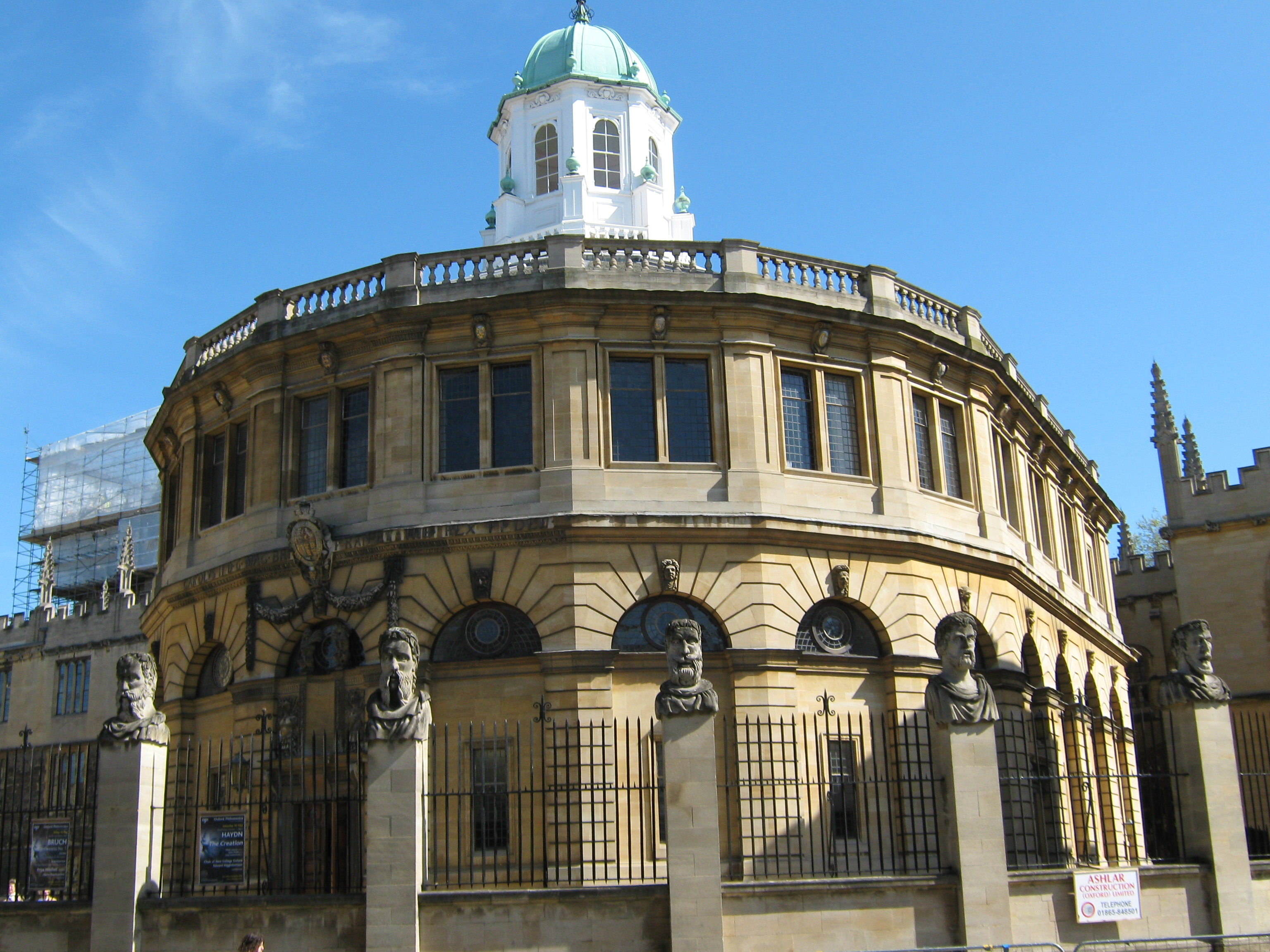 Sheldonian Theatre Oxford Sir Chirstopher Wren